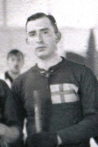 Einar Lindqvist with the swedish national ice hockey team at the 1920 Summer Olympics in Antwerp, Belgium. The picture is a crop out of a larger team photo taken inside the ice rink Palais de Glace d'Anvers. The ice hockey tournament at the 1920 Summer Olympics took place between April 23 and April 29.